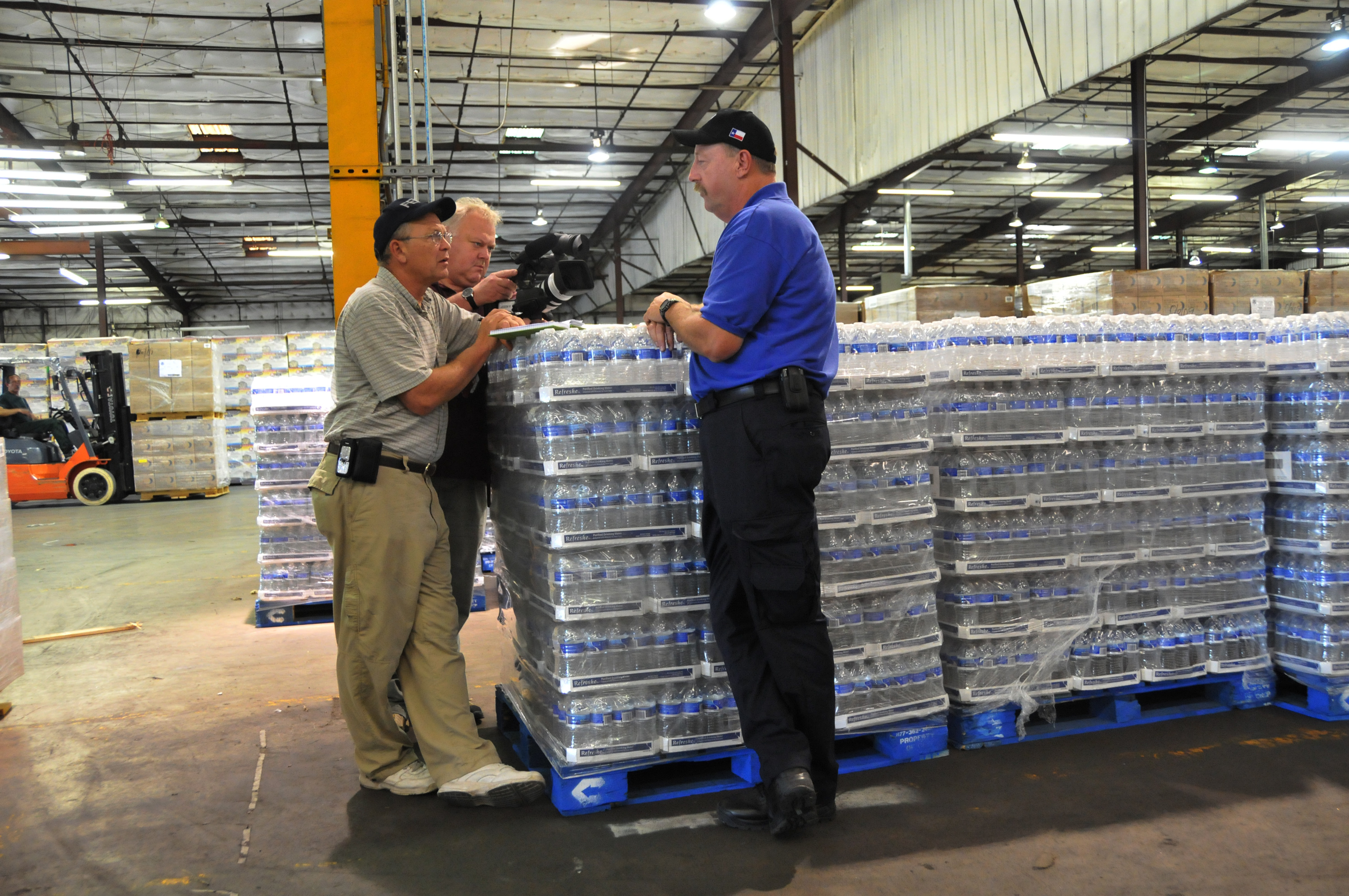 Tyler, TX, September 2,2008 -- A FEMA Broadcast crew interviews a member of the Texas Emergency management response team warehouse in Tyler, TX. The warehouse is being used to handle basic supplies of water and MRE (meals ready to eat) for distribution to residents affected by Hurricane Gustav. Photo by Patsy Lynch/FEMA